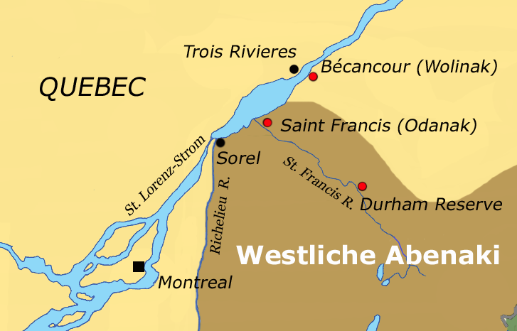 Description: Waban-Aki reserves in Quebec, Canada Source: own work Uploader: User:Nikater Date: November 21 2006 Other Versions: no License status